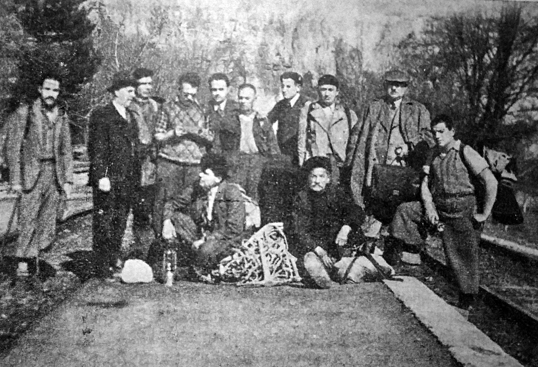 Rafail Popov (right in the back) with his son (right) in Karlukovo's station